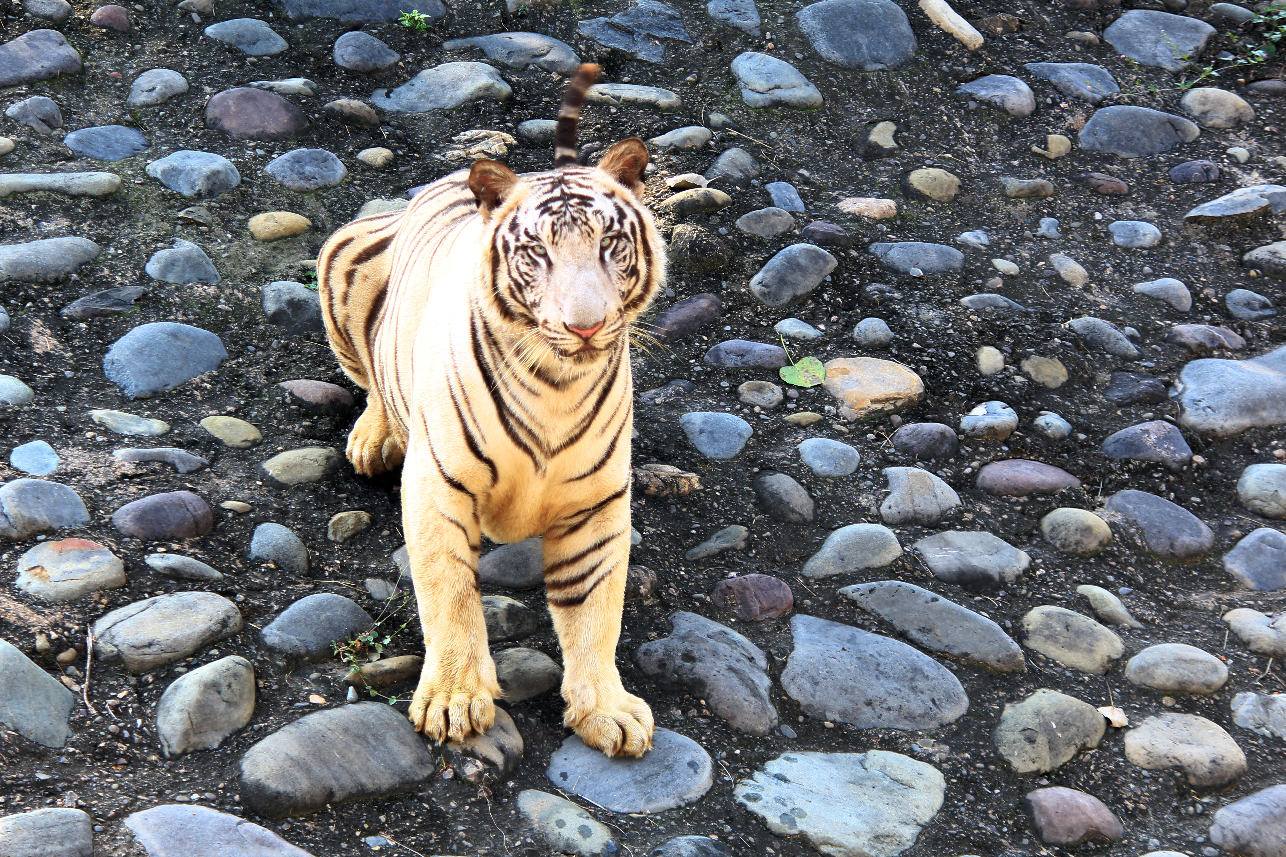 The White Bengal Tiger ChattBir Zoo Zirakpur Mohali Punjab